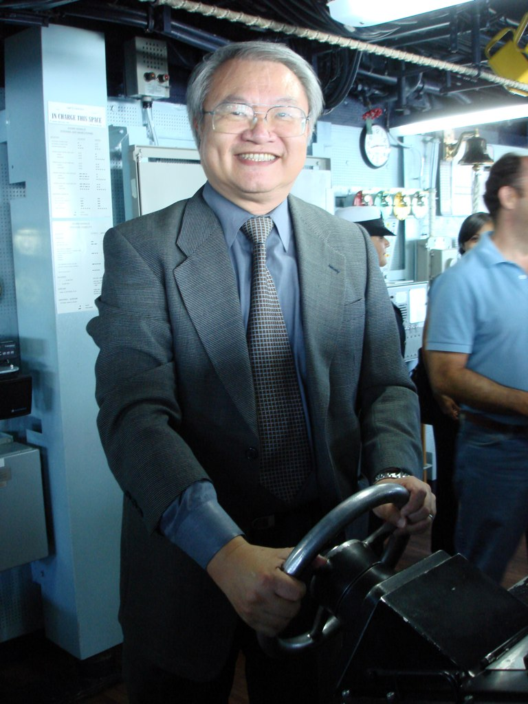 Tung Chan Aboard the USS Momsen in North Vancouver, docked at the Burrard Pier in 2010.